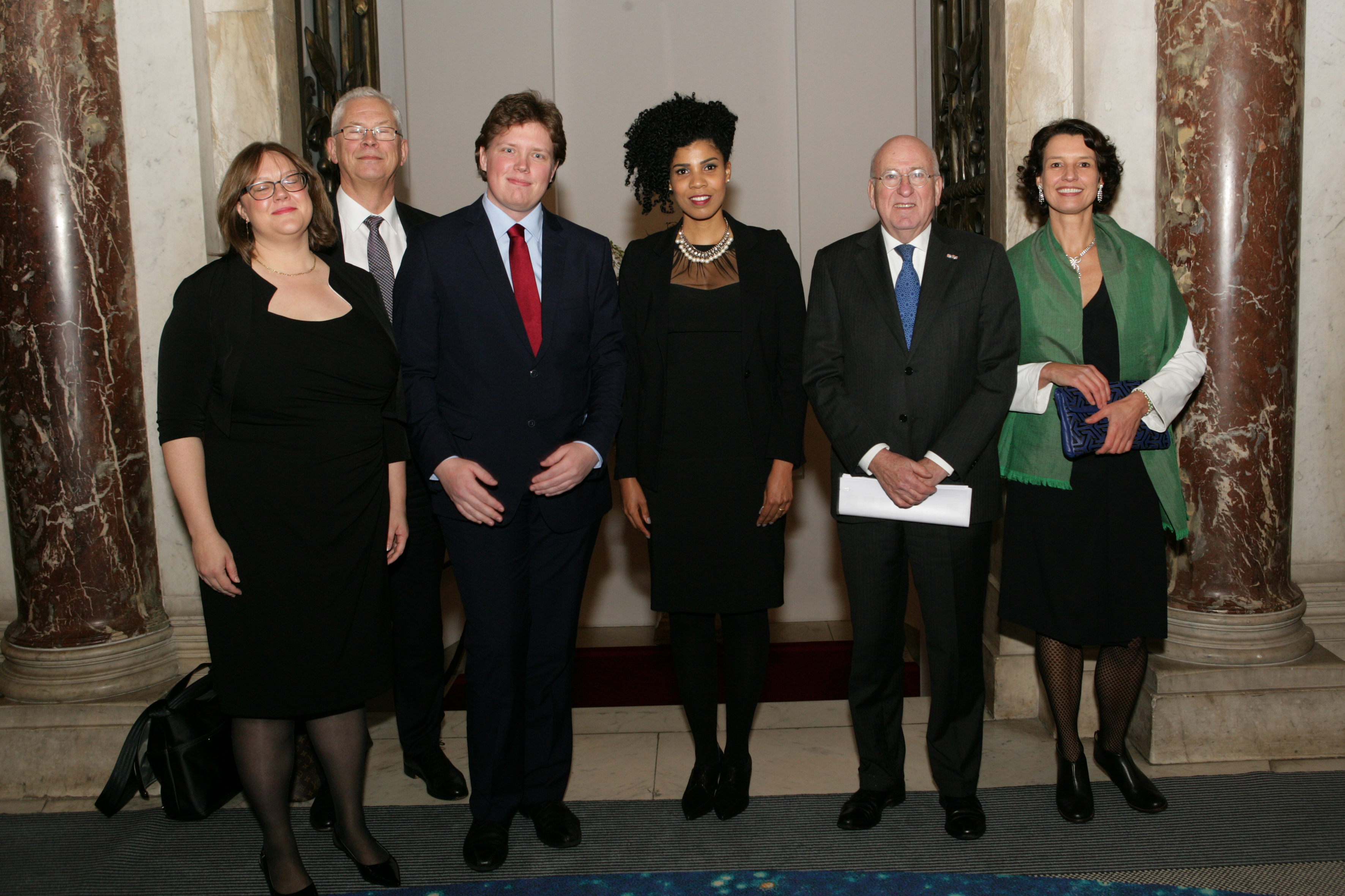 Erasmus Prize 2015, awarded to the Wikipedia community by Stichting Praemium Erasmianum on 25 November 2015. From left to right: Phoebe Ayers (Wiki), Max Sparreboom (SPE), Lodewijk Gelauff (Wiki), Adele Vrana (Wiki), Martijn Sanders (SPE), Bregtje van der Haak SPE).